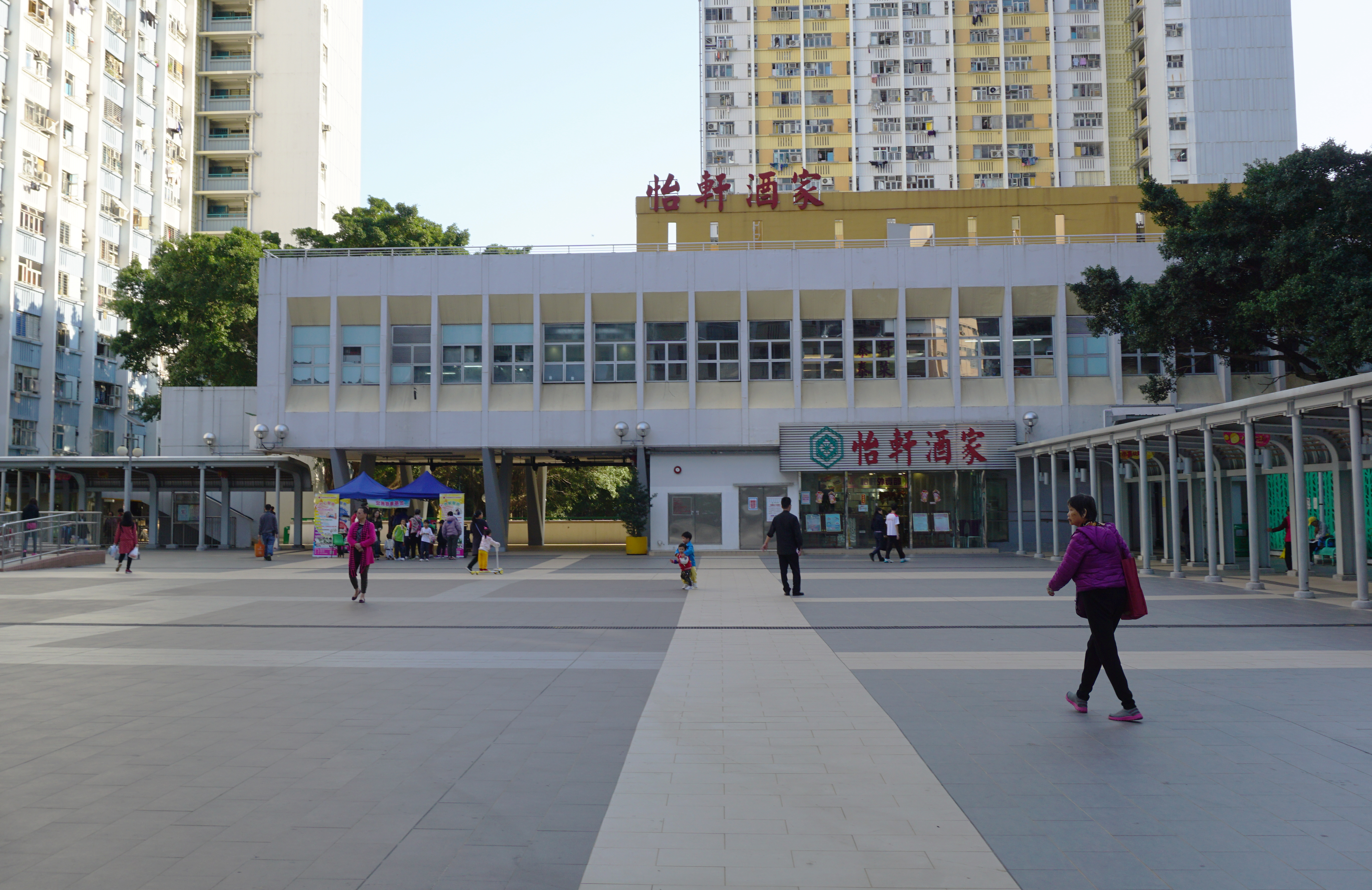 Ping Shek Estate in Ngau Chi Wan, Hong Kong.